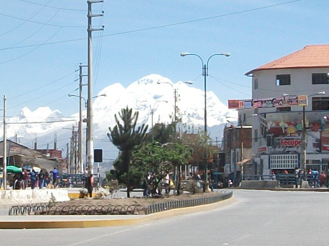 Nevado Huascaran visto desde el puente Quilcay en Huaraz